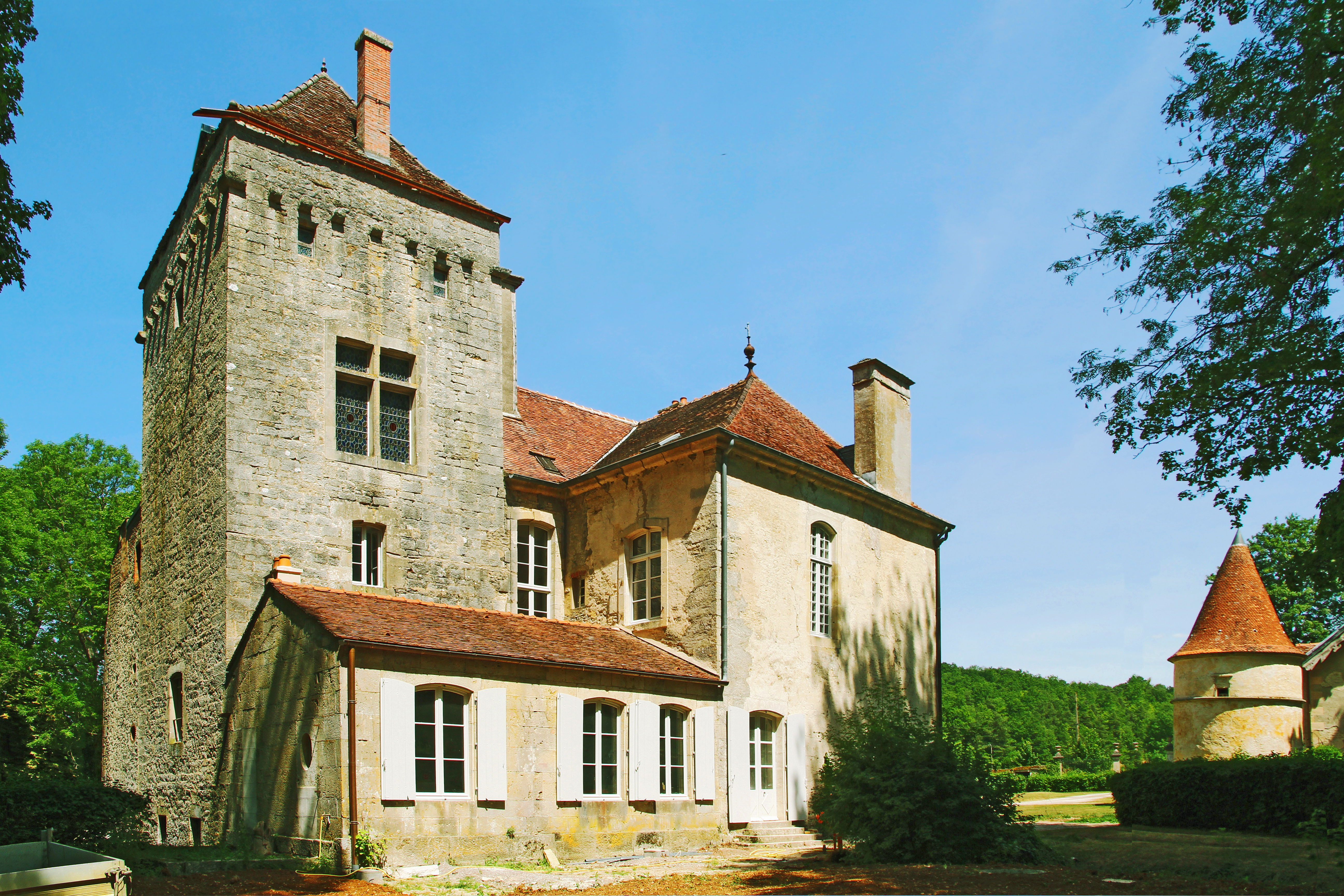 Castle of Quemigny-sur-Seine